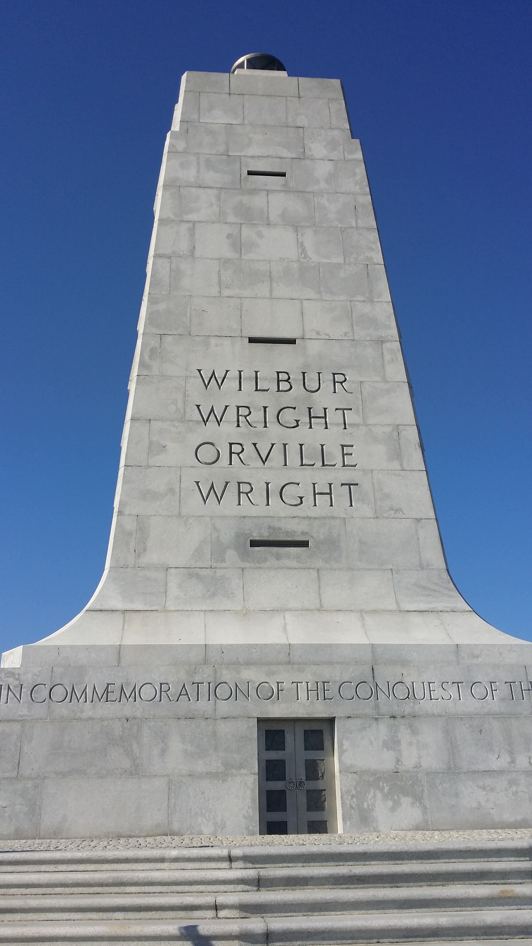 Wright Brothers National Memorial